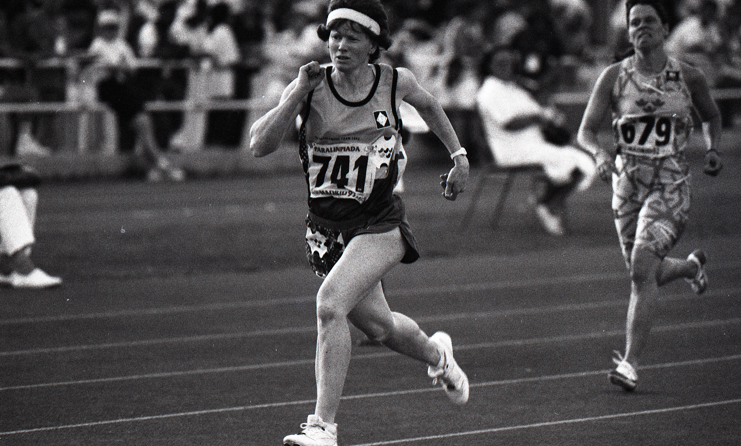 Queensland track and field athlete Kaye Freeman races at the 1992 Madrid Paralympic Games for Persons with Mental Handicap. Freeman was unsuccessful on the track in Madrid but won a bronze medal in javelin.